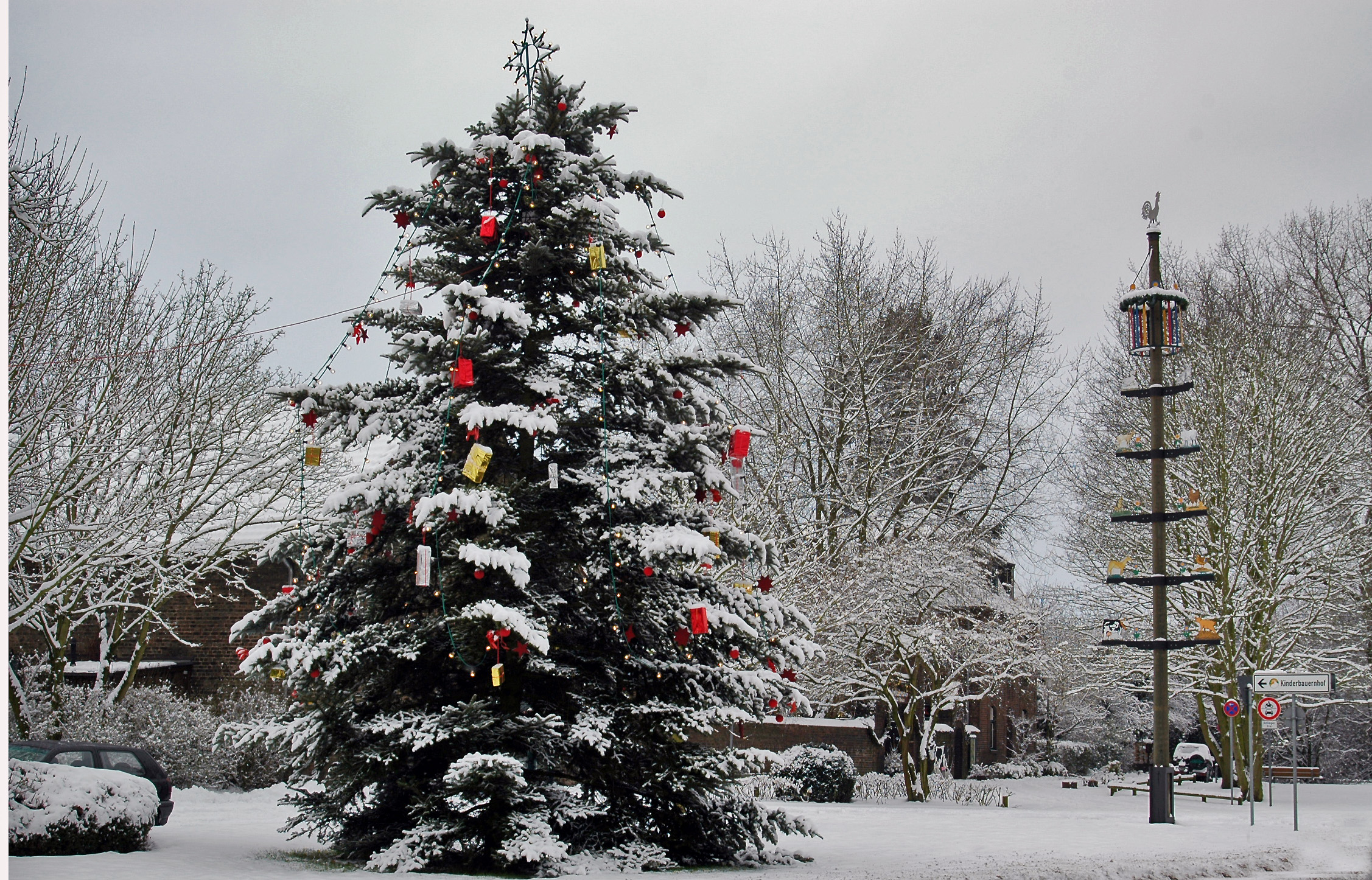 Weihnachtszeit am Kinderbauernhof